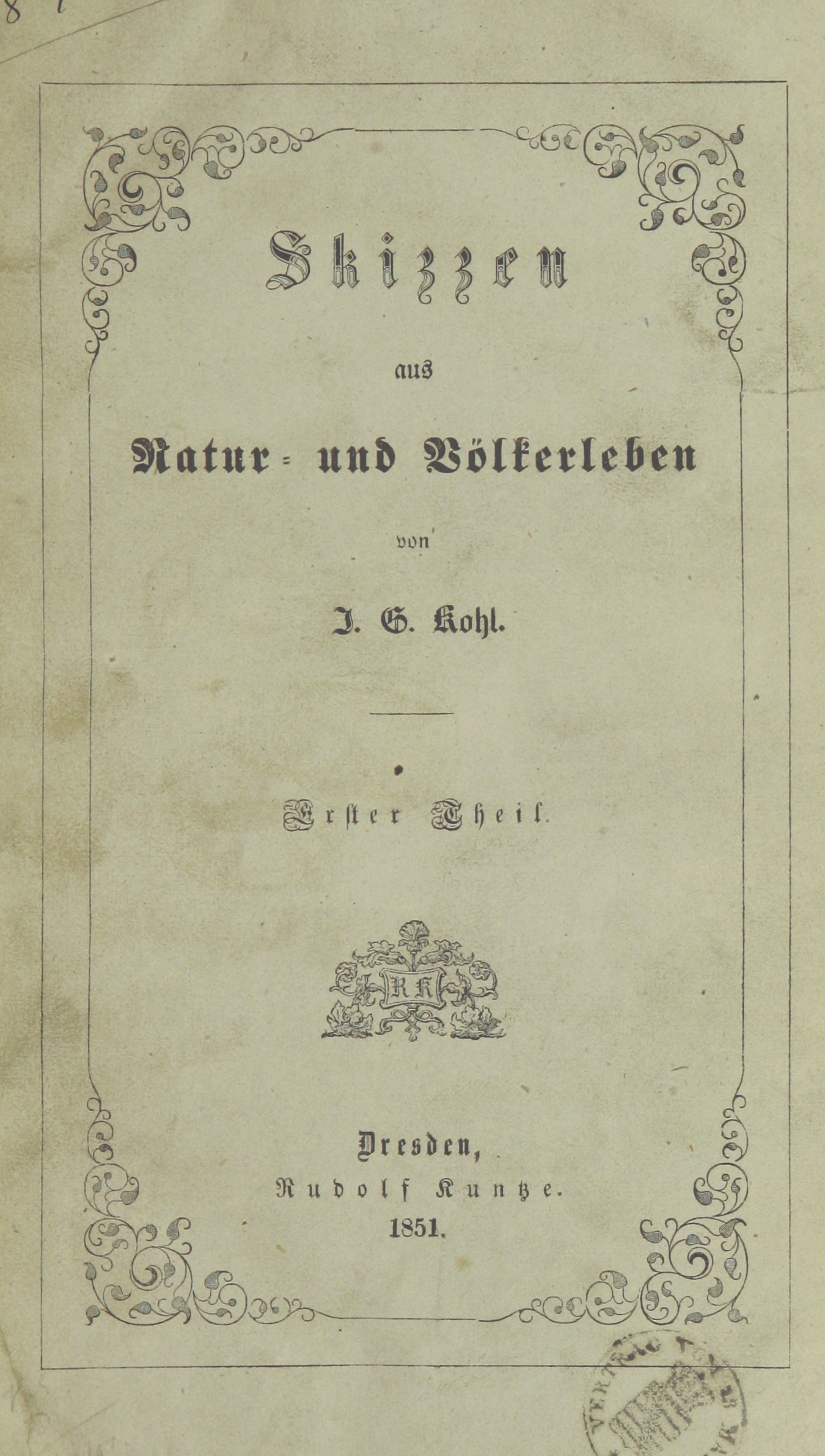 Image taken from: Title: "Skizzen aus Natur- und Völkerleben" Author: KOHL, Johann Georg. Shelfmark: "British Library HMNTS 10027.e.16." Page: 7 Place of Publishing: Dresden Date of Publishing: 1851 Issuance: monographic Identifier: 001999311 Explore: Find this item in the British Library catalogue, 'Explore'. Download the PDF for this book (volume: 0) Image found on book scan 7 (NB not necessarily a page number) Download the OCR-derived text for this volume: (plain text) or (json) Click here to see all the illustrations in this book and click here to browse other illustrations published in books in the same year. Order a higher quality version from here. This file is from the Mechanical Curator collection, a set of over 1 million images scanned from out-of-copyright books and released to Flickr Commons by the British Library. View image on Flickr View all images from book View catalogue entry for book. This tag does not indicate the copyright status of the attached work. A normal copyright tag is still required. See Commons:Licensing.